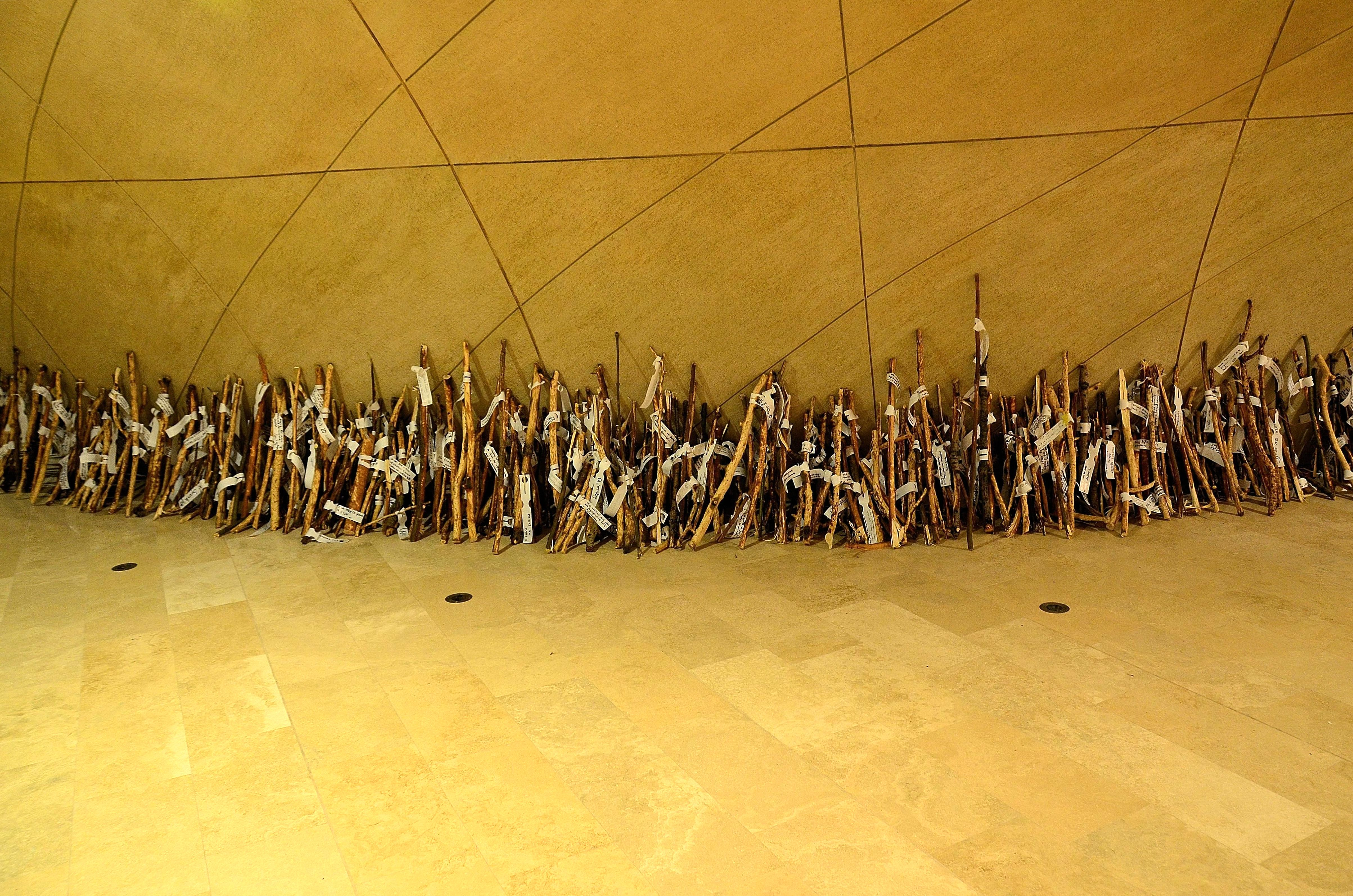 "My museum – Tree of Dreams". Museum of the History of Polish Jews in Warsaw.